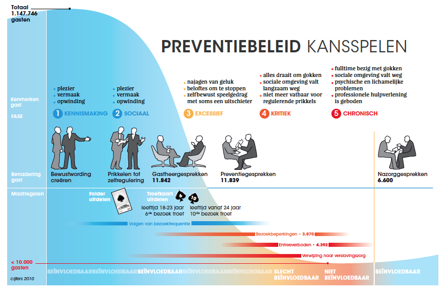 Prevention Gaming Holland Casino. Infographic about gambling addiction in phases and prevention by Holland Casino